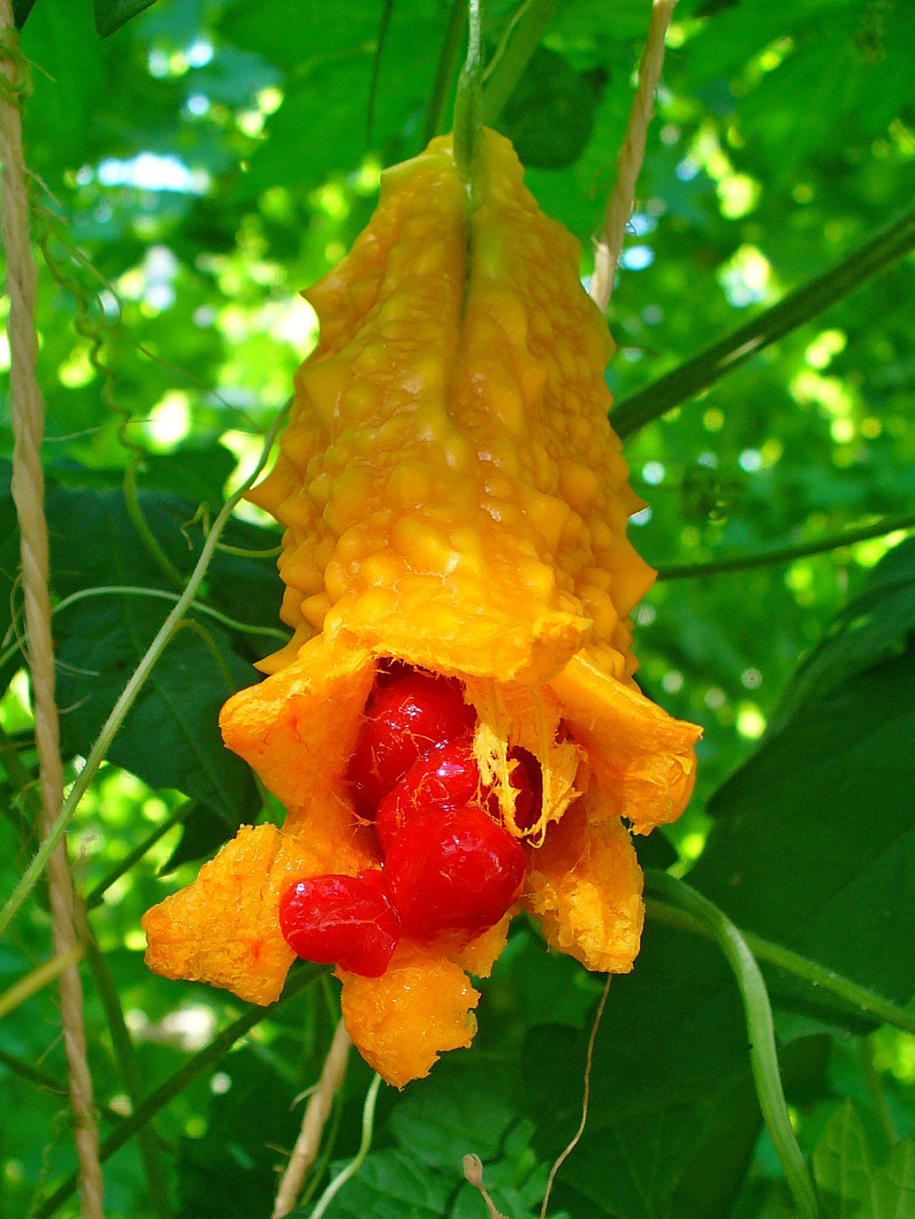 Momordica charantia, Cucurbitaceae, Bitter Melon, Bitter Gourd, fruit, splitting open.